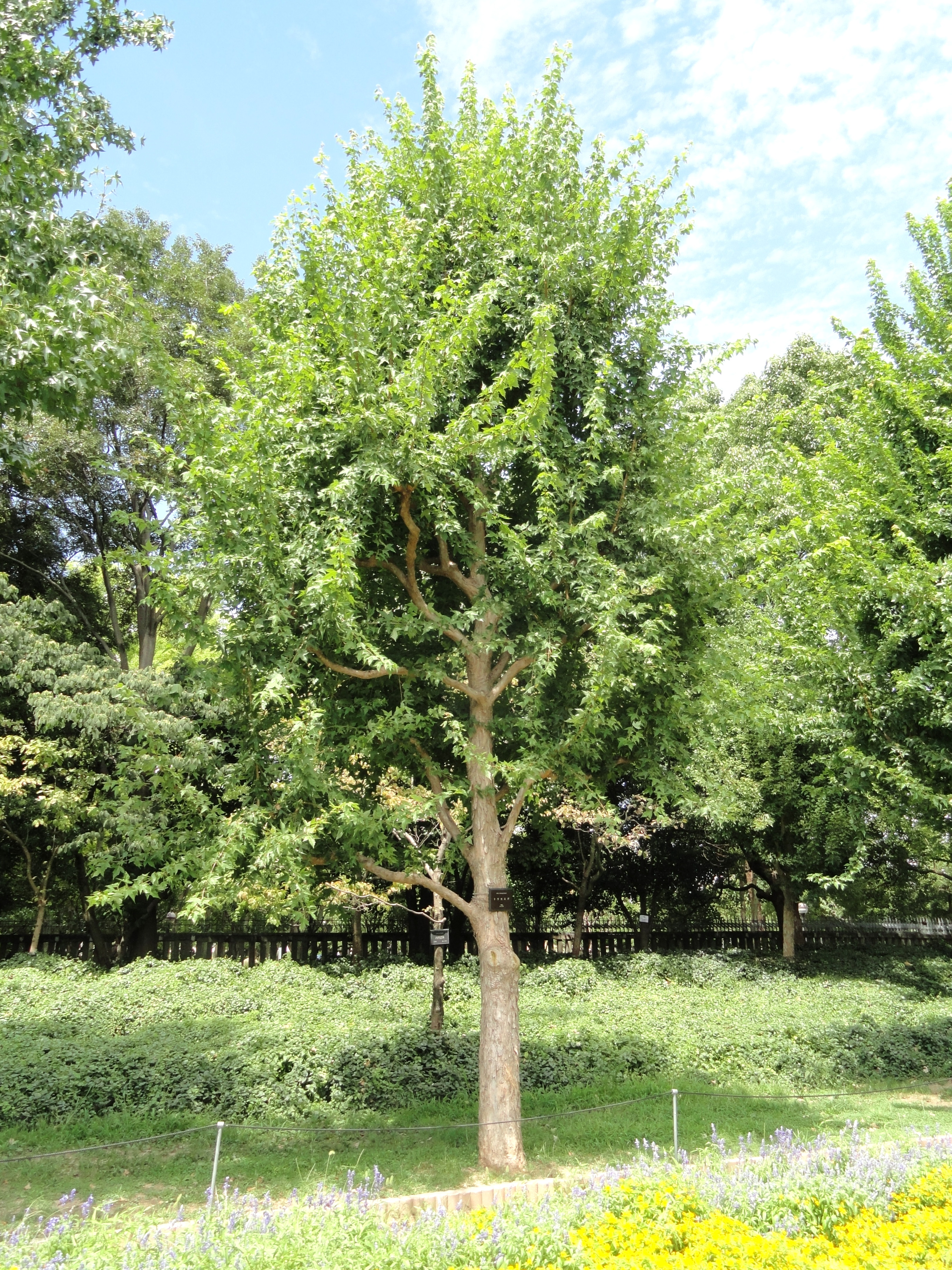 Botanical specimen in the Nagai Botanical Garden, Osaka, Japan.